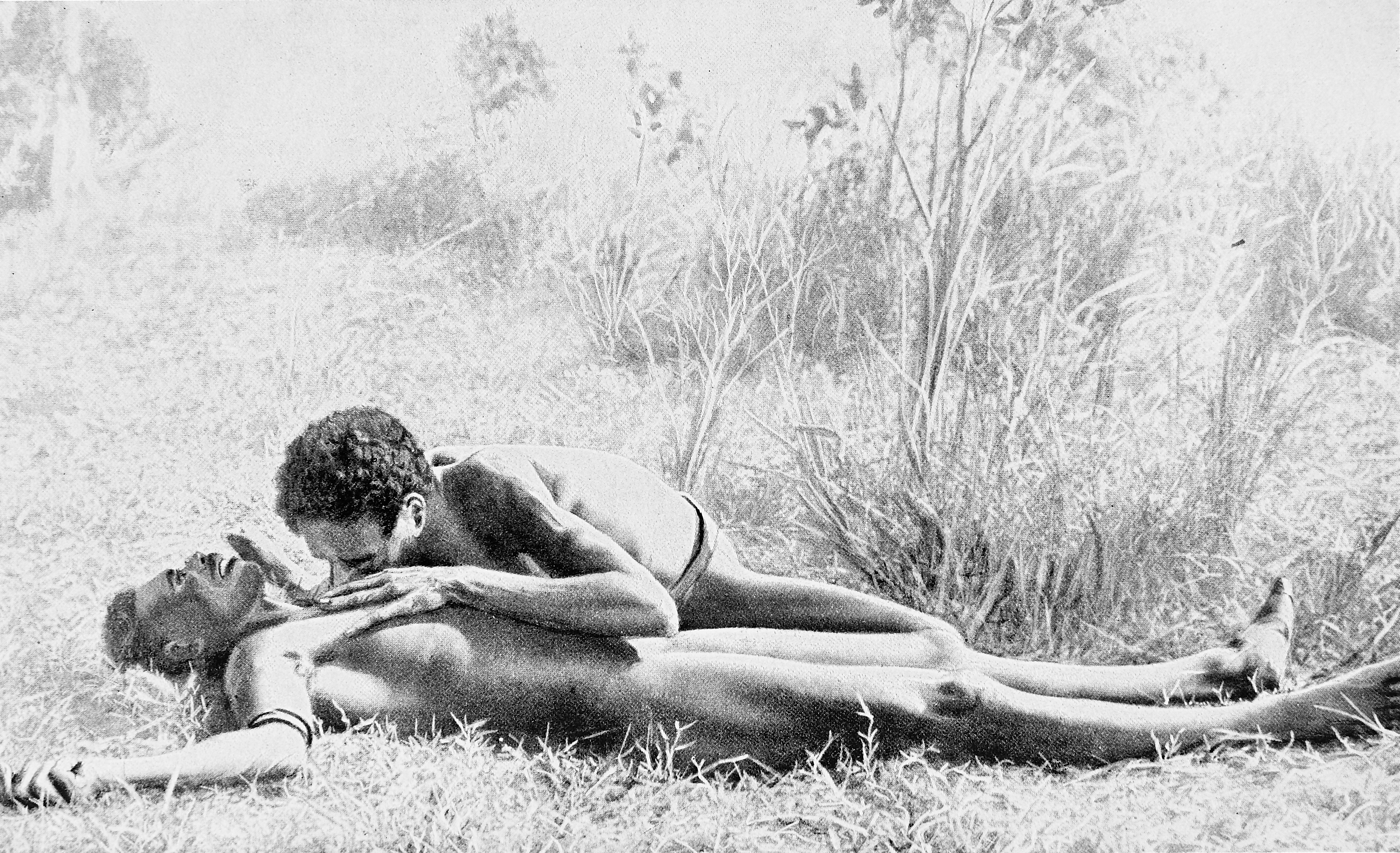 Medicine man curing disease by sucking out 'the evil witchcraft', Australia. Wellcome Images Keywords: Ethnology; Magic; indigenous non-european medicine